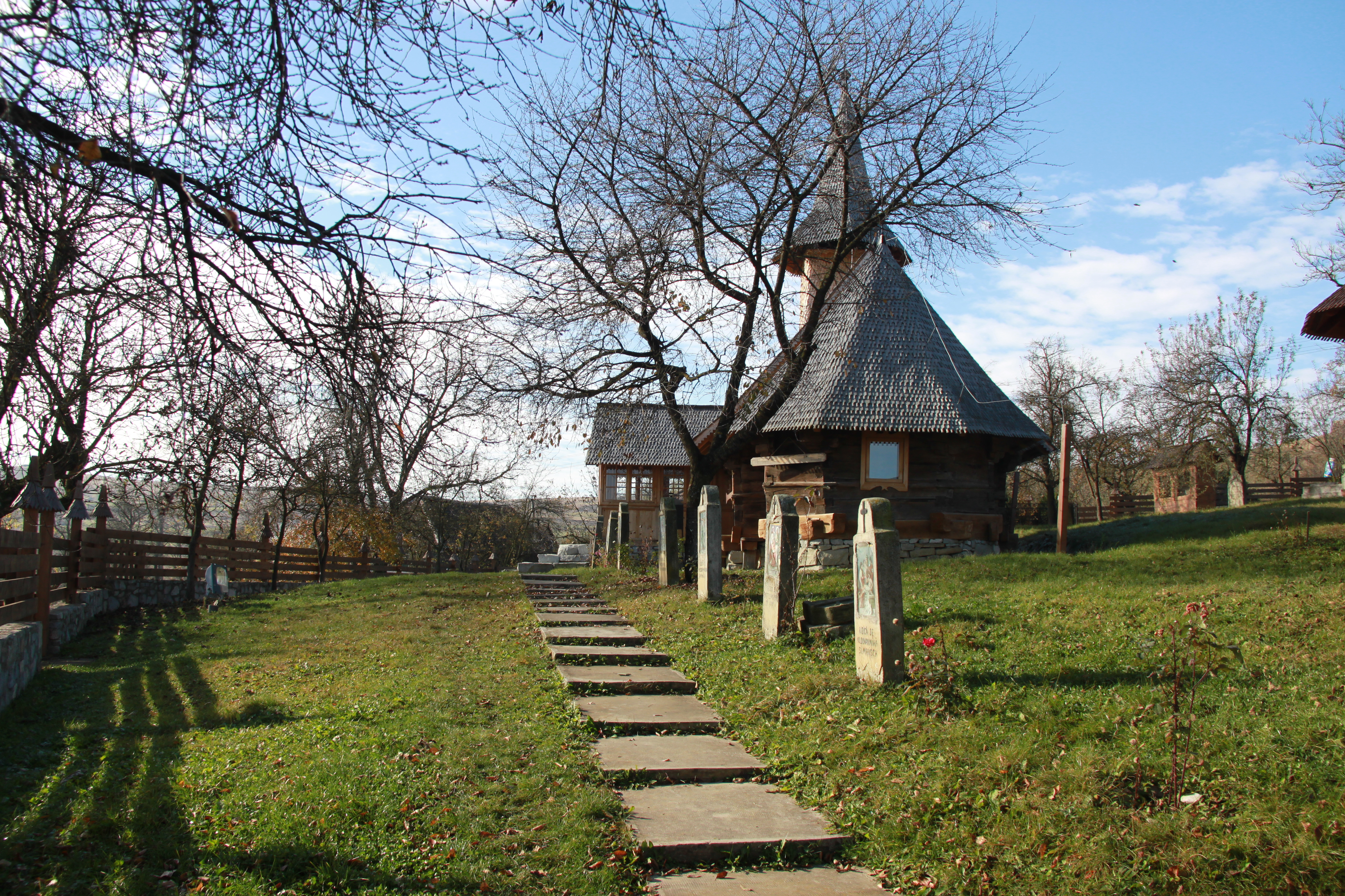 October 2010